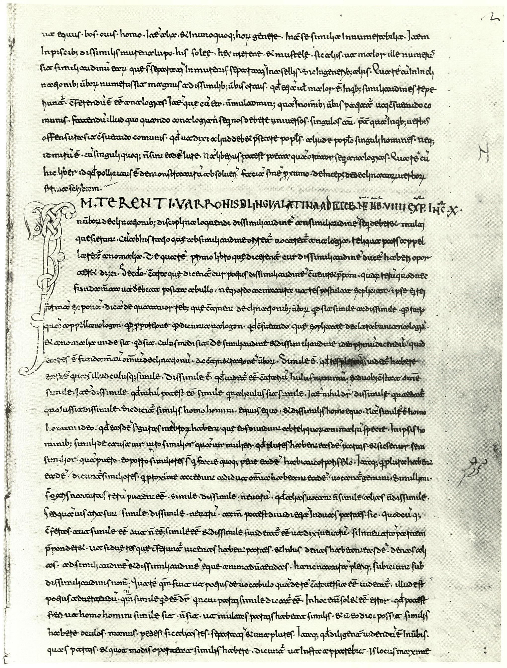 A page of the oldest manuscript of „De lingua Latina“: Florence, Biblioteca Medicea Laurenziana, Plut. 51.10, fol. 28r.